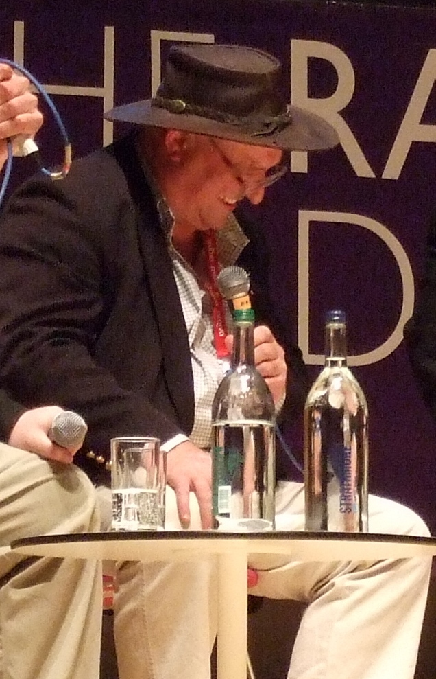 Scottie McClue at the Radio Festival 2008